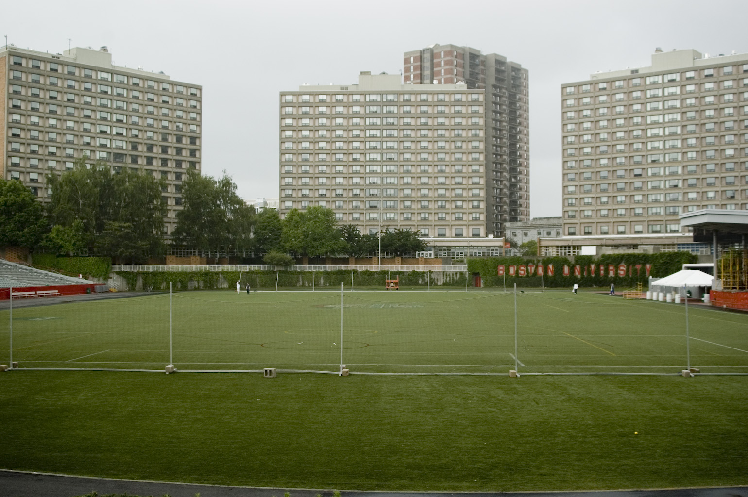 I am the creator of this work.